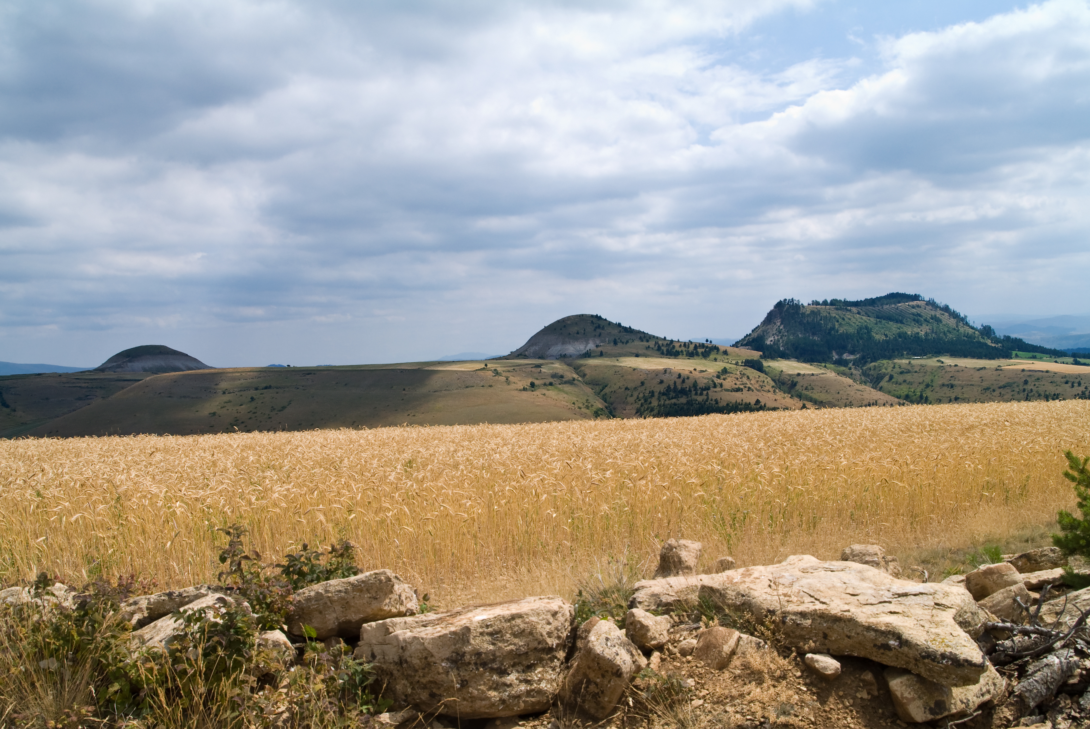 Les Bondons, Lozère, France - Cereals field in the “Cham des Bondons” site, dominated by three hills. From the left to the right: Puech d'Allègre (renamed Truc de Miret), Puech de Mariette (renamed Truc des Bondons) and Eschino d'Aze.